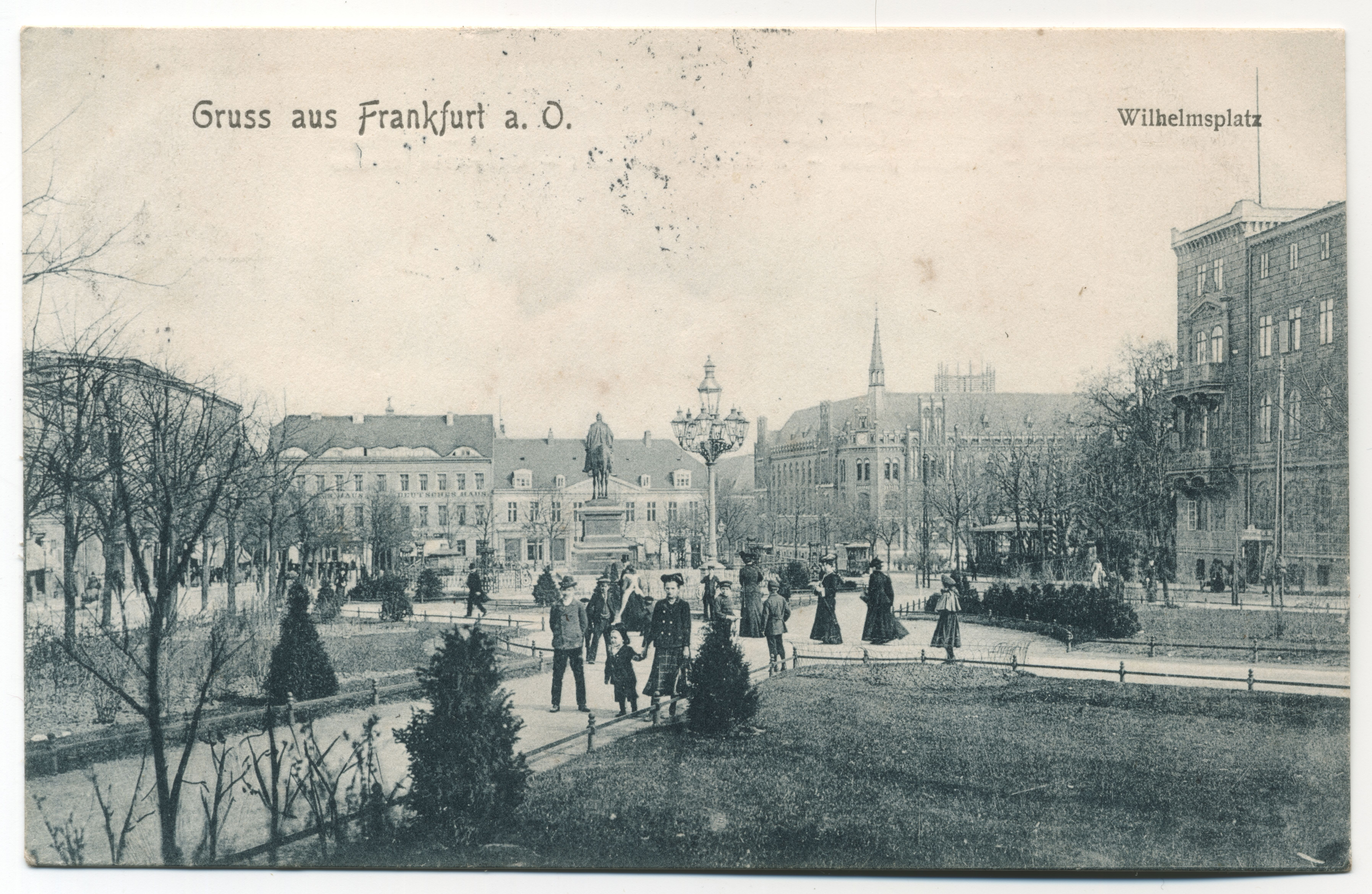 Square Wilhelmsplatz in Frankfurt (Oder), Germany. Picture postcard before 1903